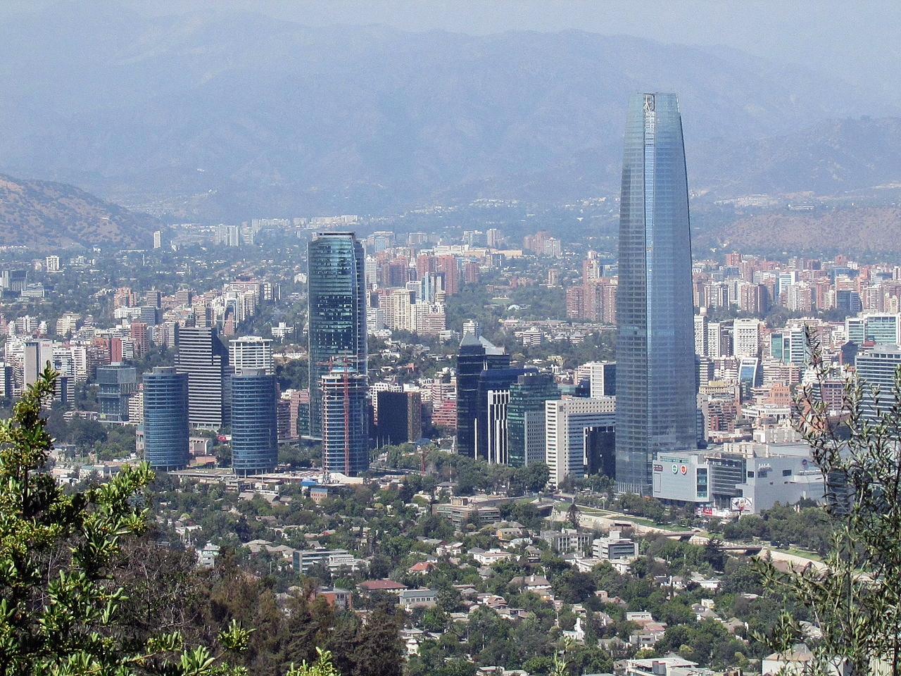 Gran Santiago Tower, Views from San Cristóbal Hill, Santiago, Chile